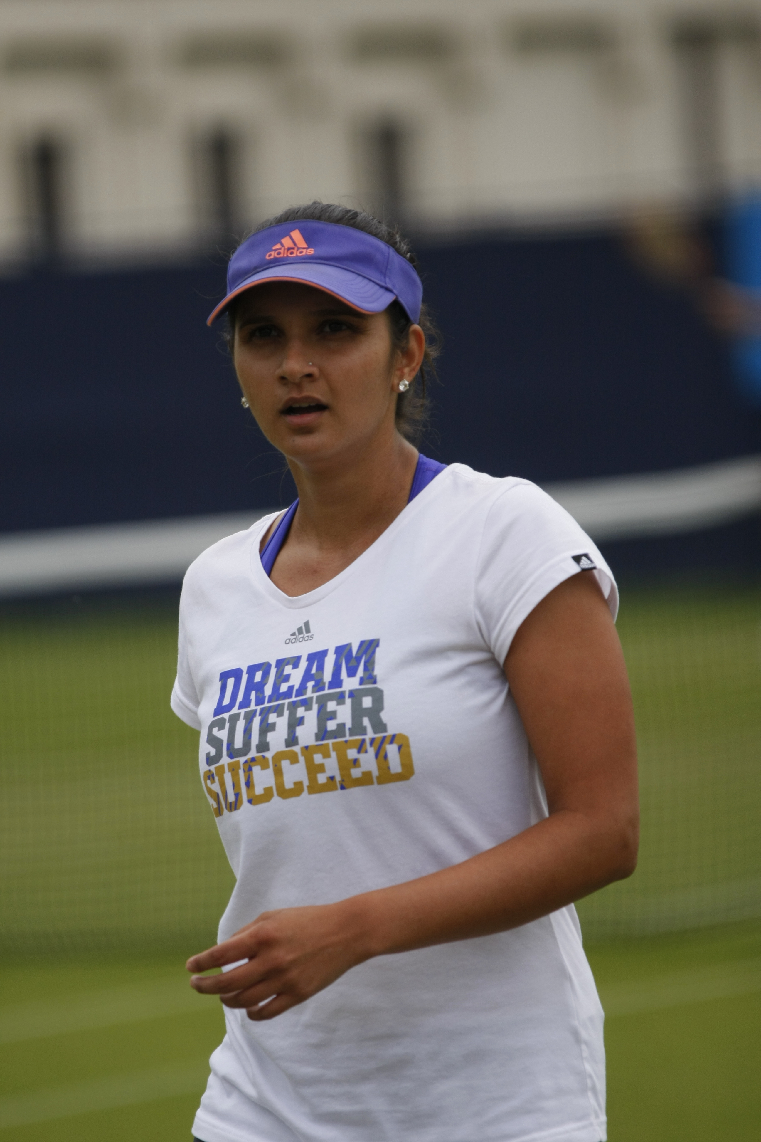 Aegon International Tennis, Devonshire Park, Eastbourne June 2015